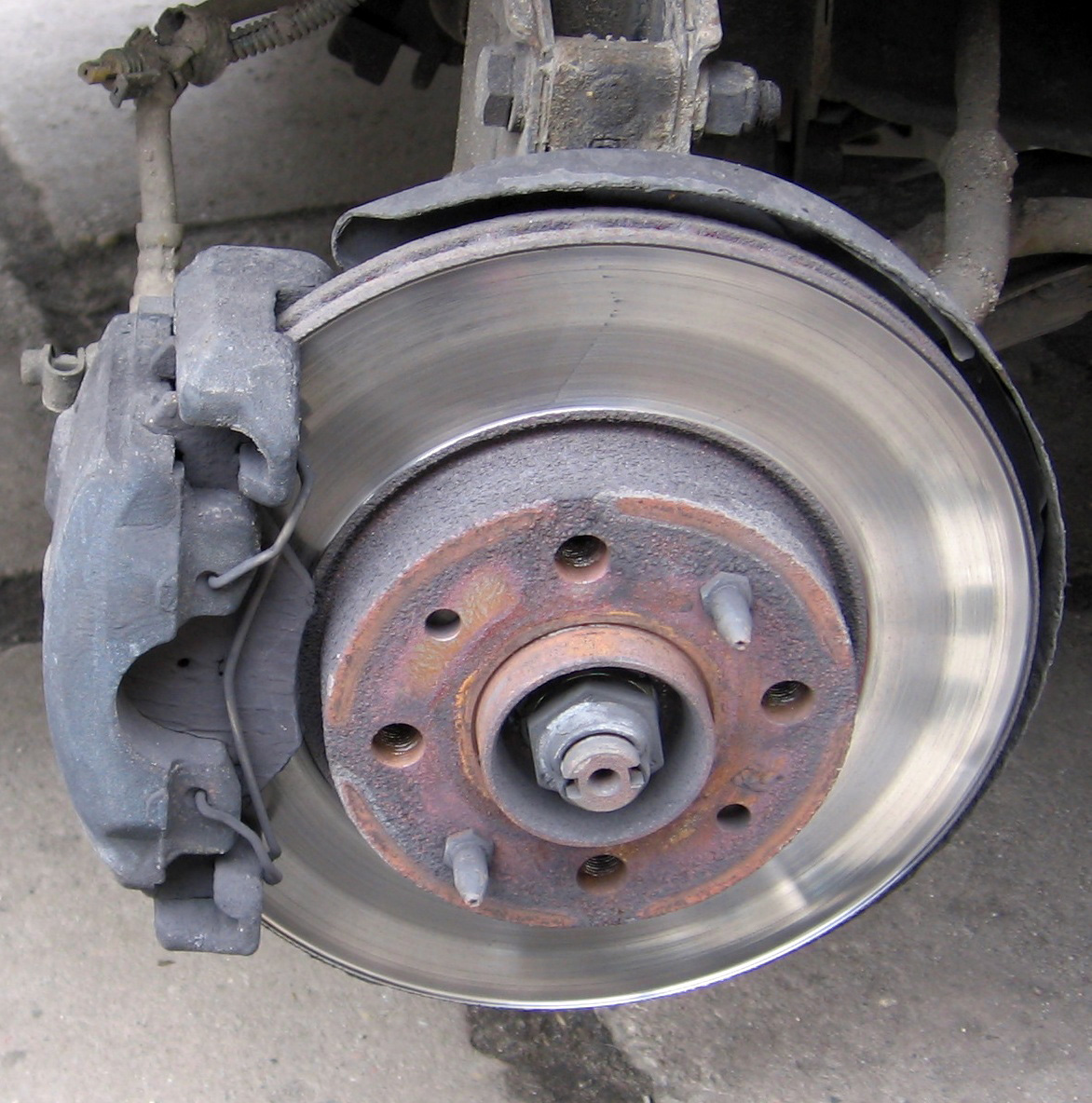 Disc brake in a car - after dismantling the wheel